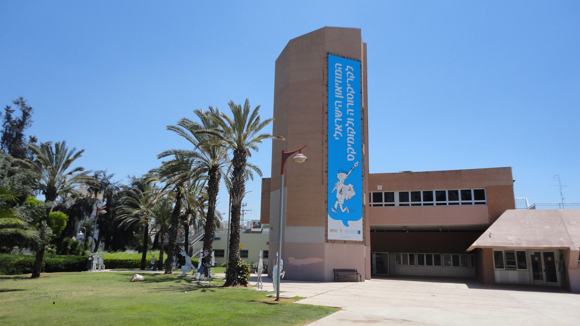 Israeli Cartoon Museum